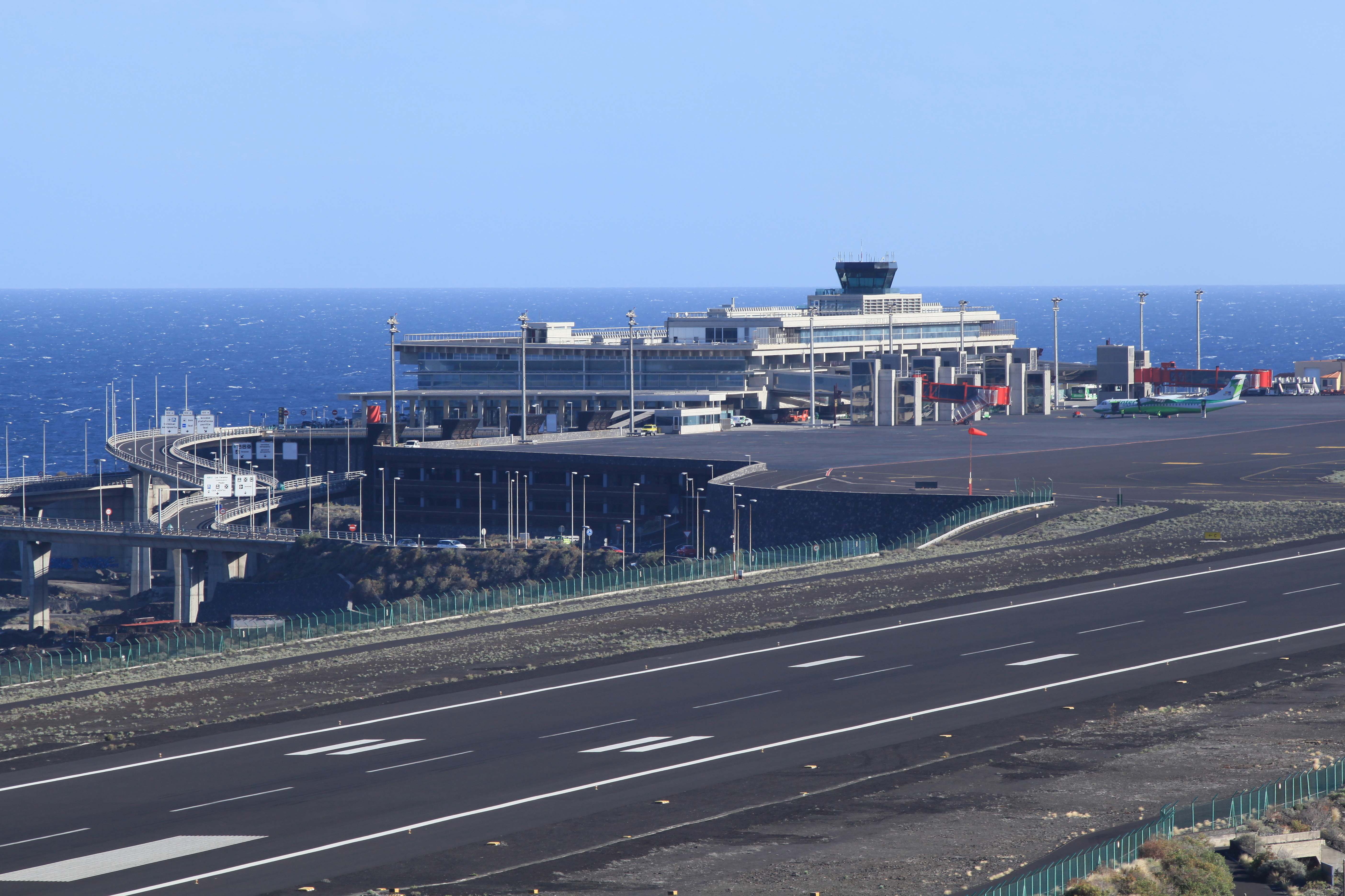 View from the Mirador del Aeropuerto down to the La Palma Airport in Breña Baja/Villa de Mazo, La Palma, Canary Island, Spain